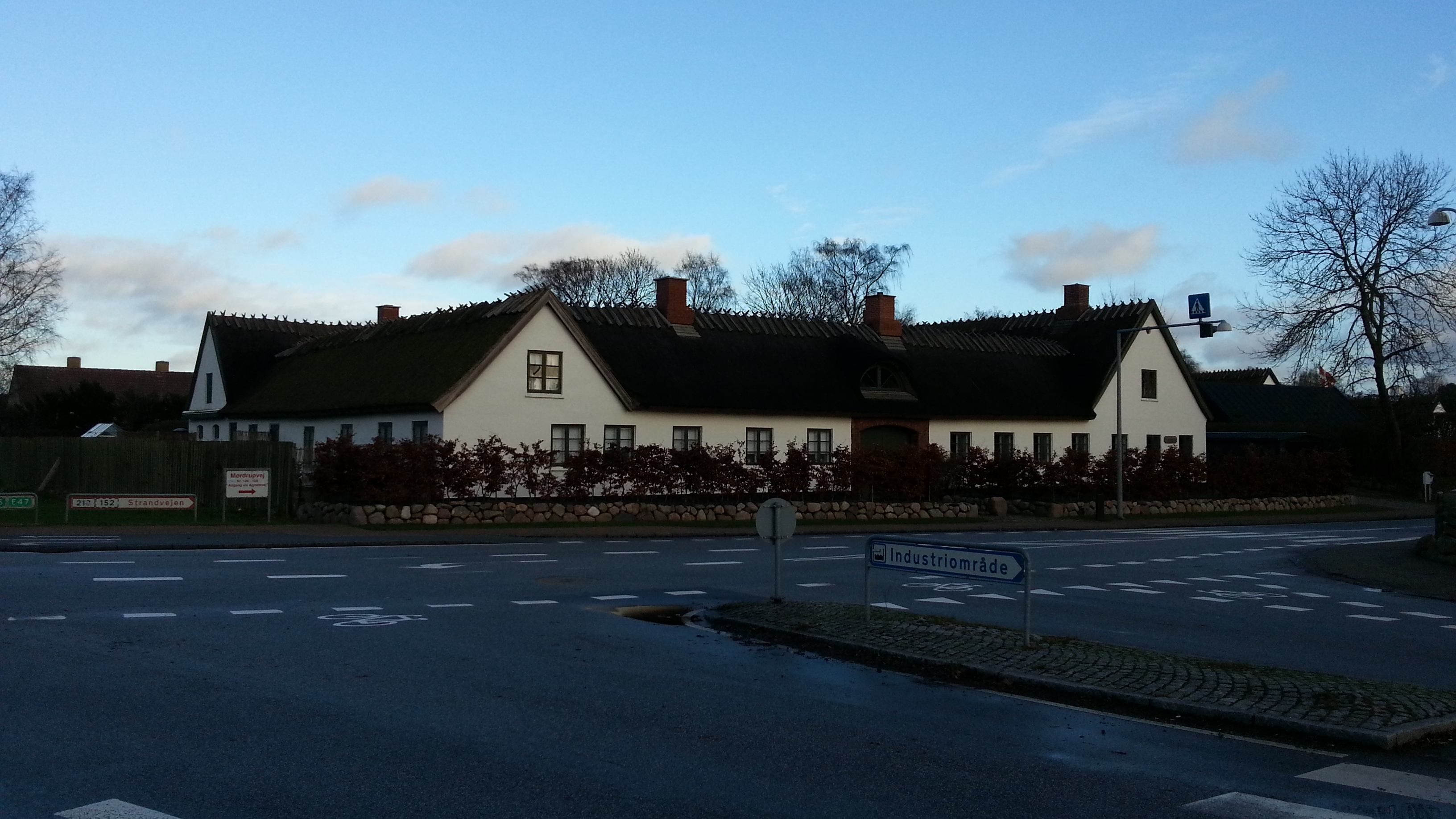 Old farm in Mørdrup (Espergærde), Denmark 4